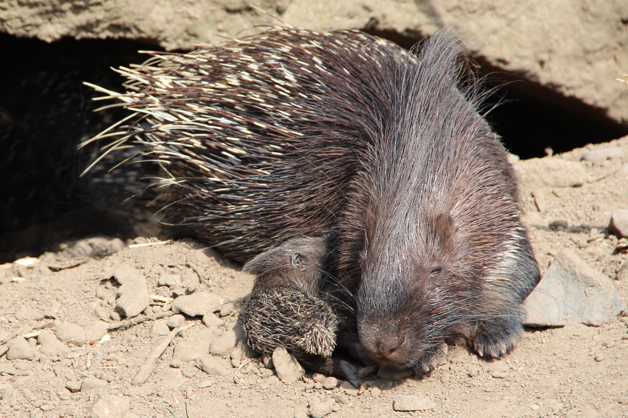 Crested porcupine nursing one of her young